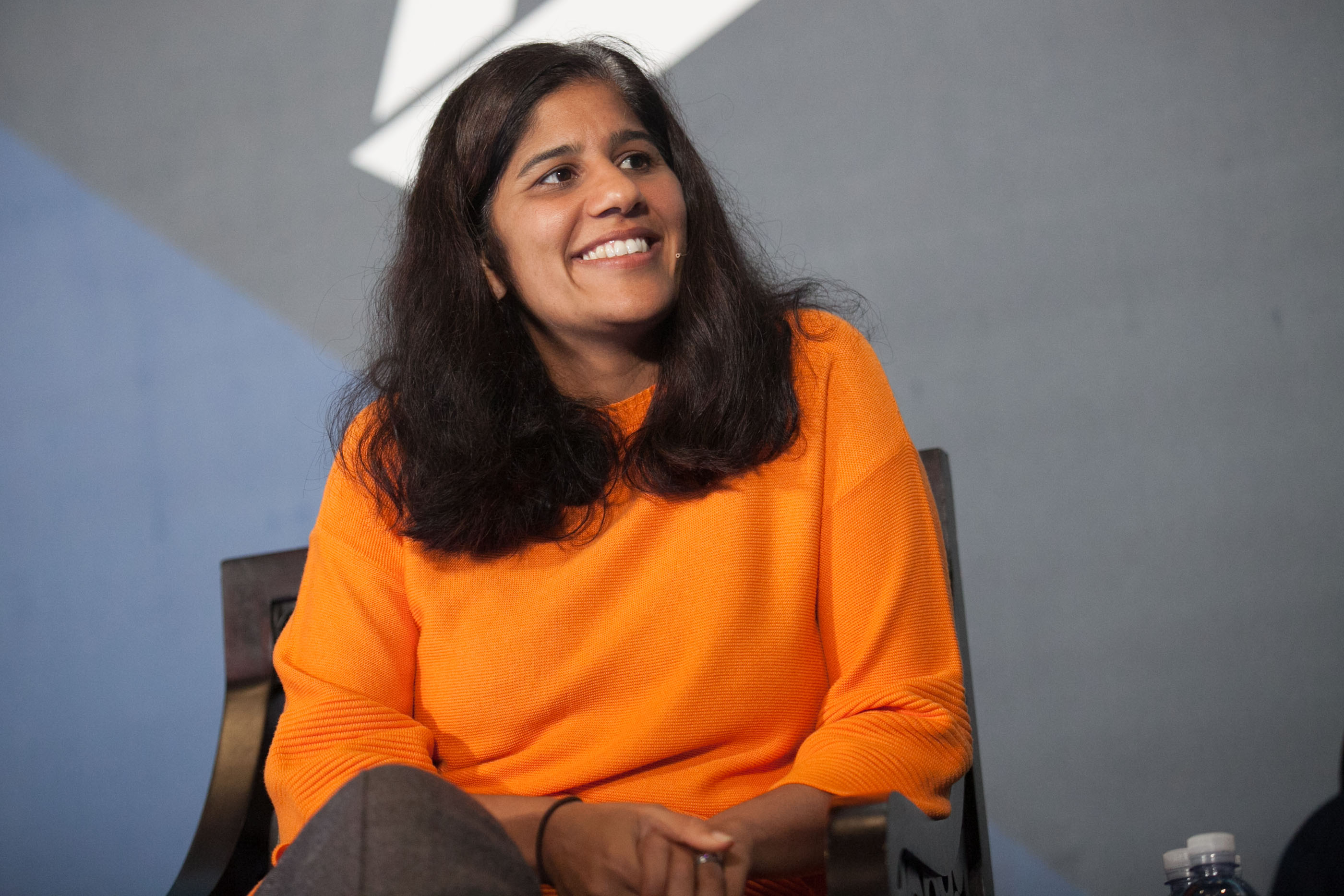 Selina Tobaccowala, president and CTO of SurveyMonkey, at the Traction conference in SF.